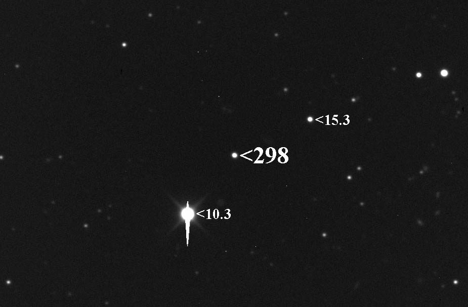 4 minute exposure of asteroid 298 Baptistina with a 24" telescope. 298 Baptistina is apparent magnitude 15.2 in this image taken at 2009-10-24 03:30 UT. The blooming star to the lower left of Baptistina is magnitude 10.3. The star just to the upper right of Baptistina is magnitude 15.3. Baptistina was once considered a possible candidate being the core remnant of the catastrophic disruption of a parent asteroid that caused the KT impact event.